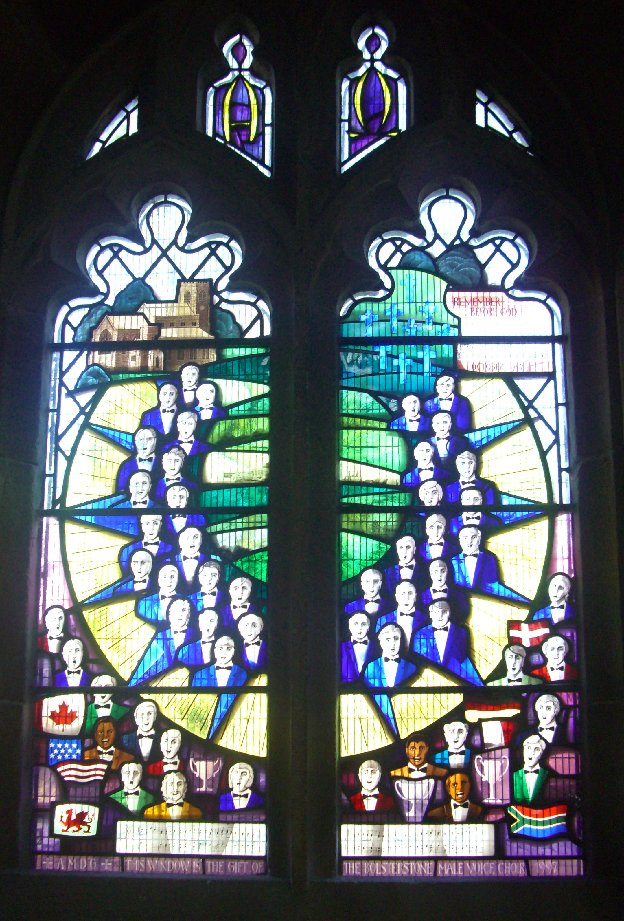 Memorial window in St Mary's Church, Bolsterstone, Sheffield, South Yorkshire